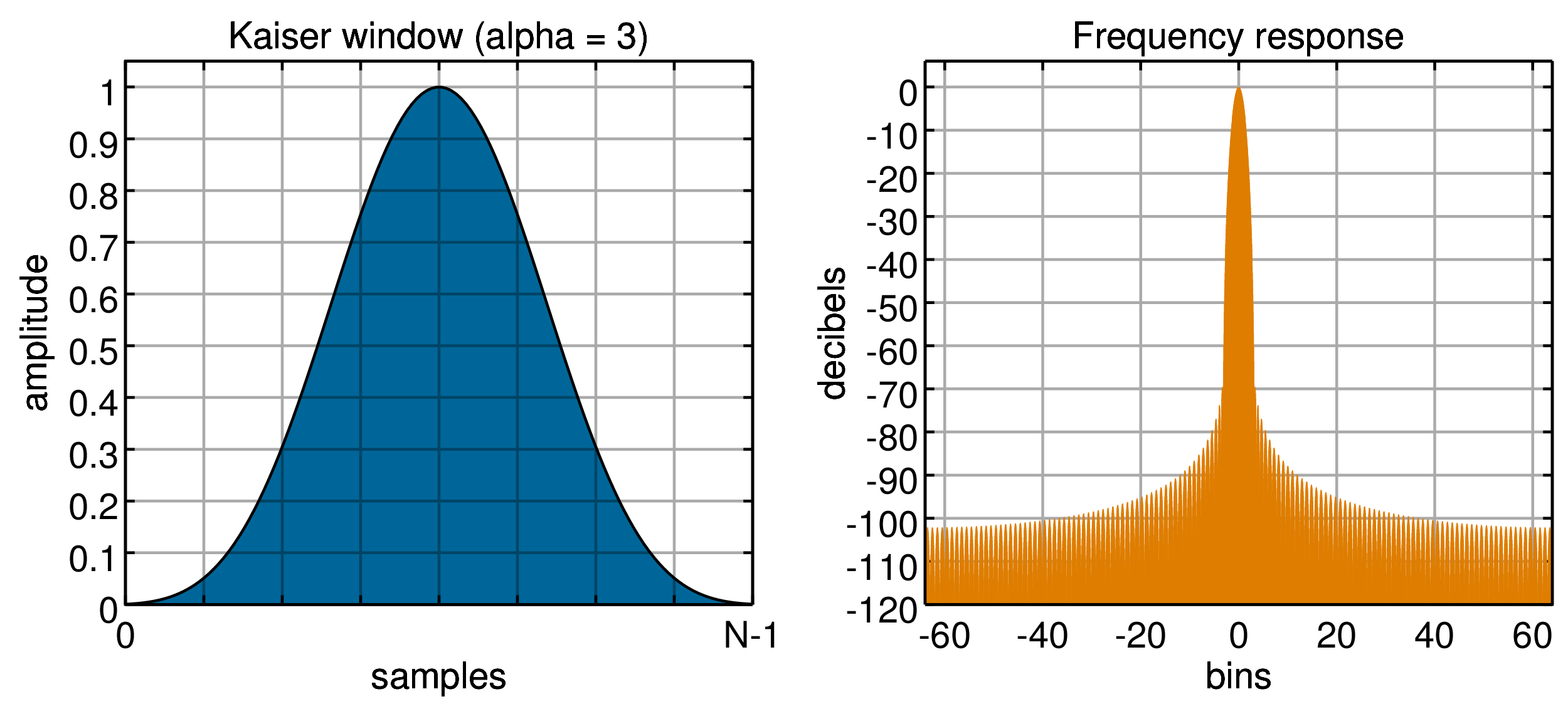 Kaiser window and frequency response for alpha = 3